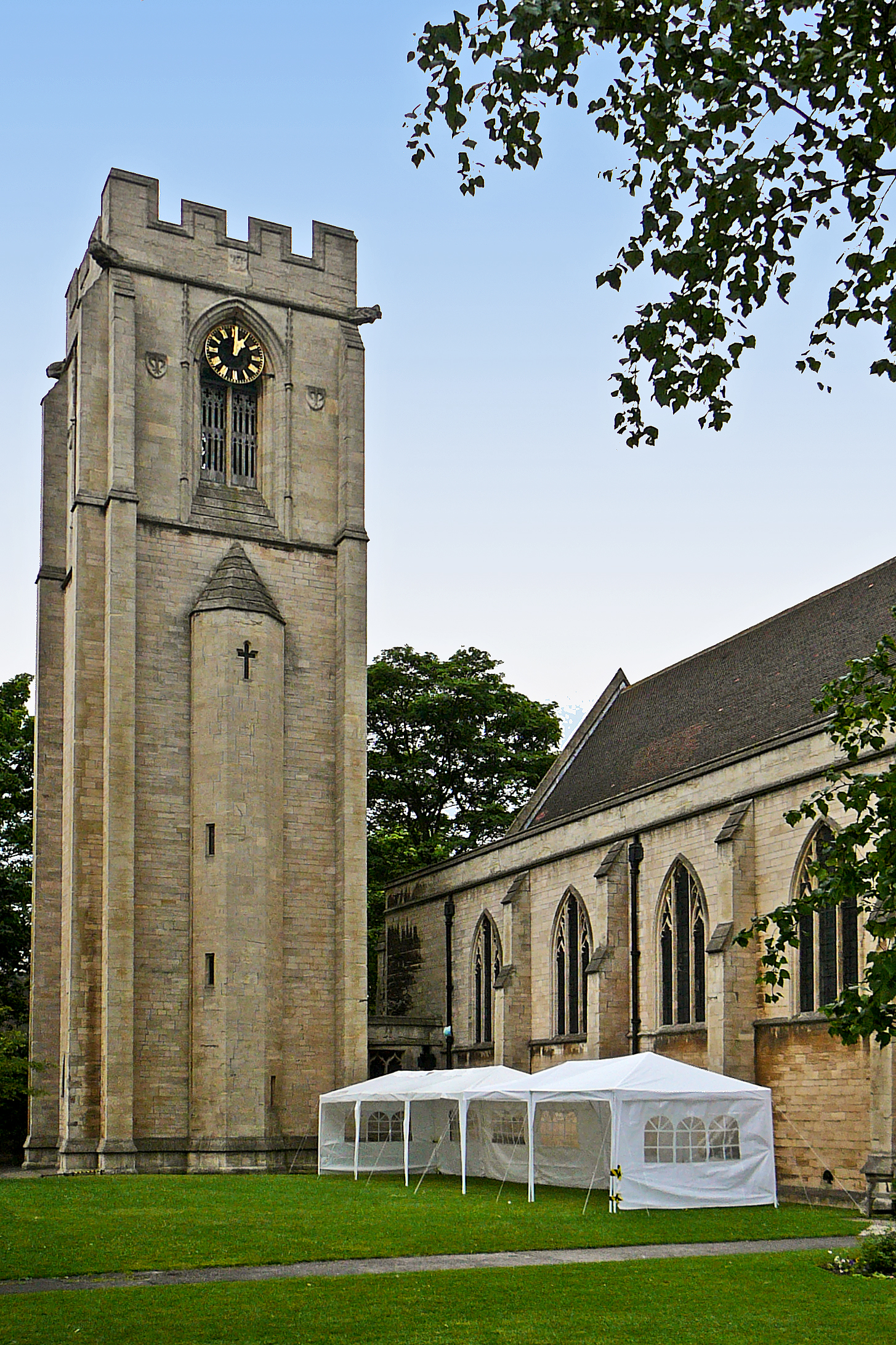 St. Matthew's Church was designed by George Frederick Bodley (1827-1907), the renowned Victorian architect. He worked in the Gothic style, and largely confined himself to churches. The large separate tower and the stark interior with long internal lines are characteristic of his work. He was the first pupil of George Gilbert Scott later establishing a partnership with another pupil of Scott's, Thomas Garner, which lasted for nearly three decades. He was a friend of the Pre-Raphaelites and William Morris and his own most important pupil was the Arts and Crafts designer C. R. Ashbee. Bodley's churches include among many others, St. Michael's in Brighton (1859-61) an early work, Holy Trinity Knightsbridge, and in Cambridge the chapel for Queen's College. Abroad, his major work was Washington Cathedral. He was also responsible for a variety of church interior architecture - e.g. the nave and presbytery altar for York Minster.